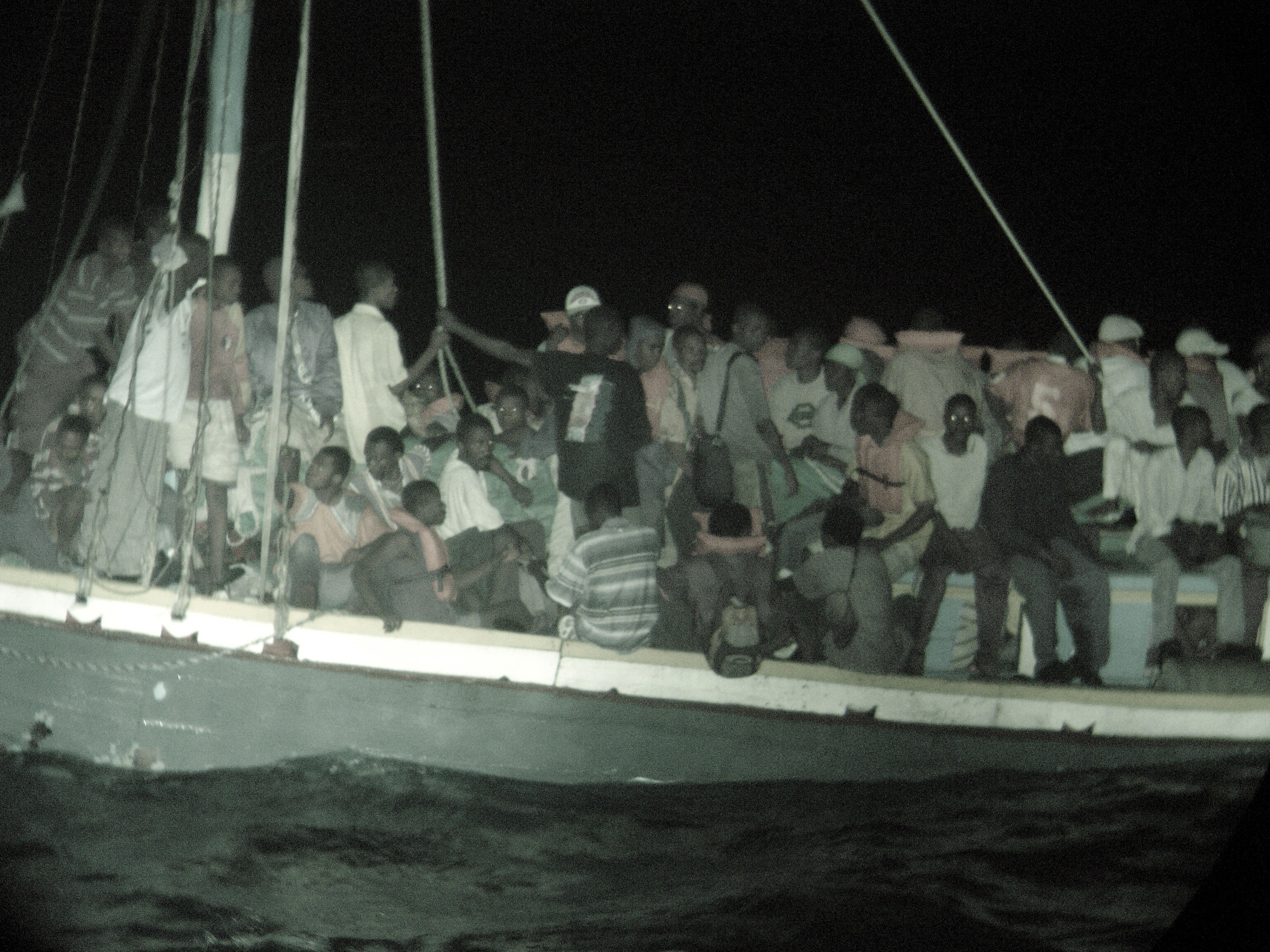 Windward Pass (April 30, 2005) -Haitian migrants wait to be evacuated from a 50- foot sailboat by U.S. Coast Guardsmen in the Windward Pass. The U.S. Coast Guard Cutter Dependable (WMEC 626) intercepted the vessel, removed 132 migrants, and repatriated them back to Haiti. U.S. Coast Guard photo by Public Affairs Specialist 2nd Class John Edwards